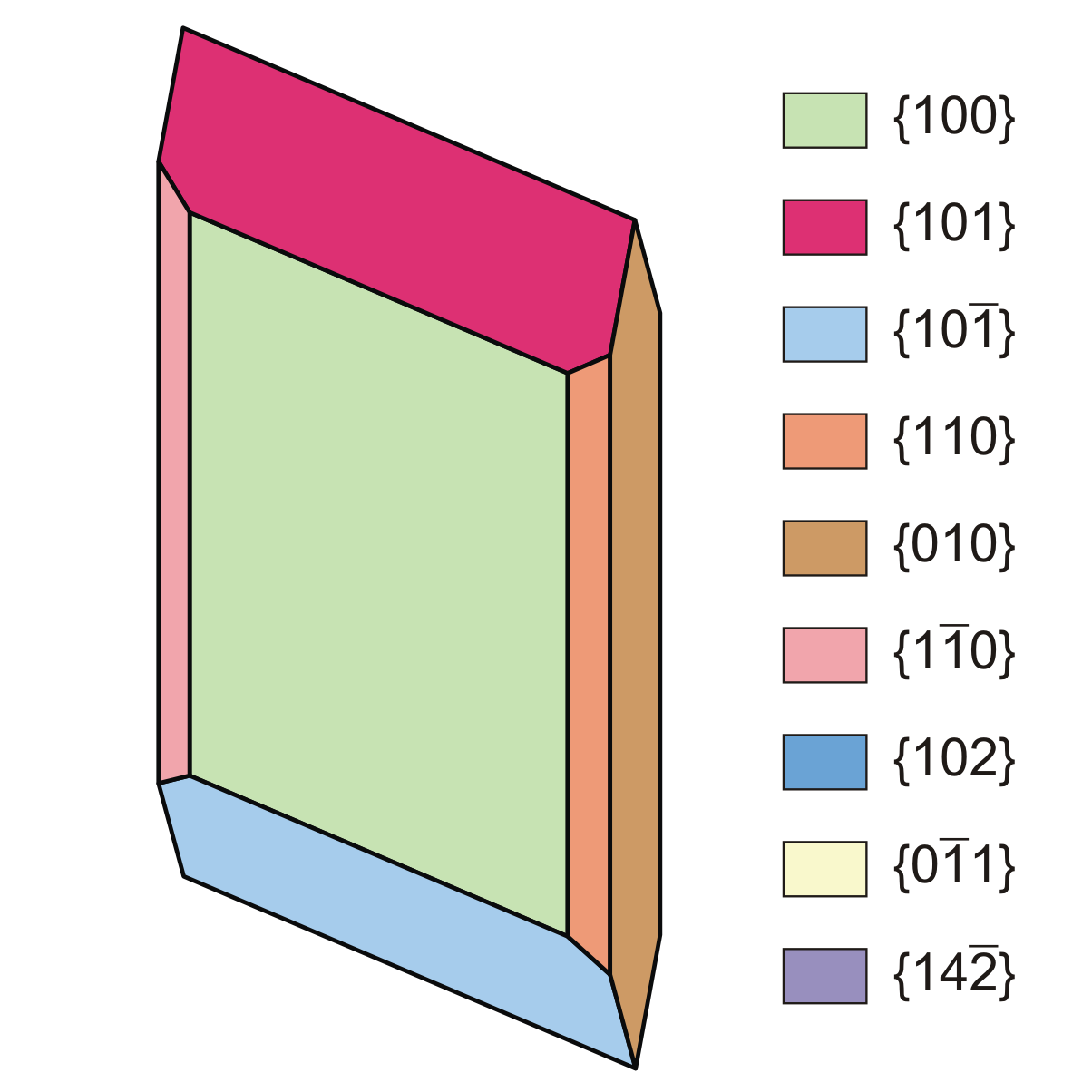 Drawing of a henmilite crystal with six forms; reference: Isao Kusachi, New Data on Mineralogical Properties of Henmilite, Journal of the Mineralogical Society of Japan Band 21 (1992), page 128